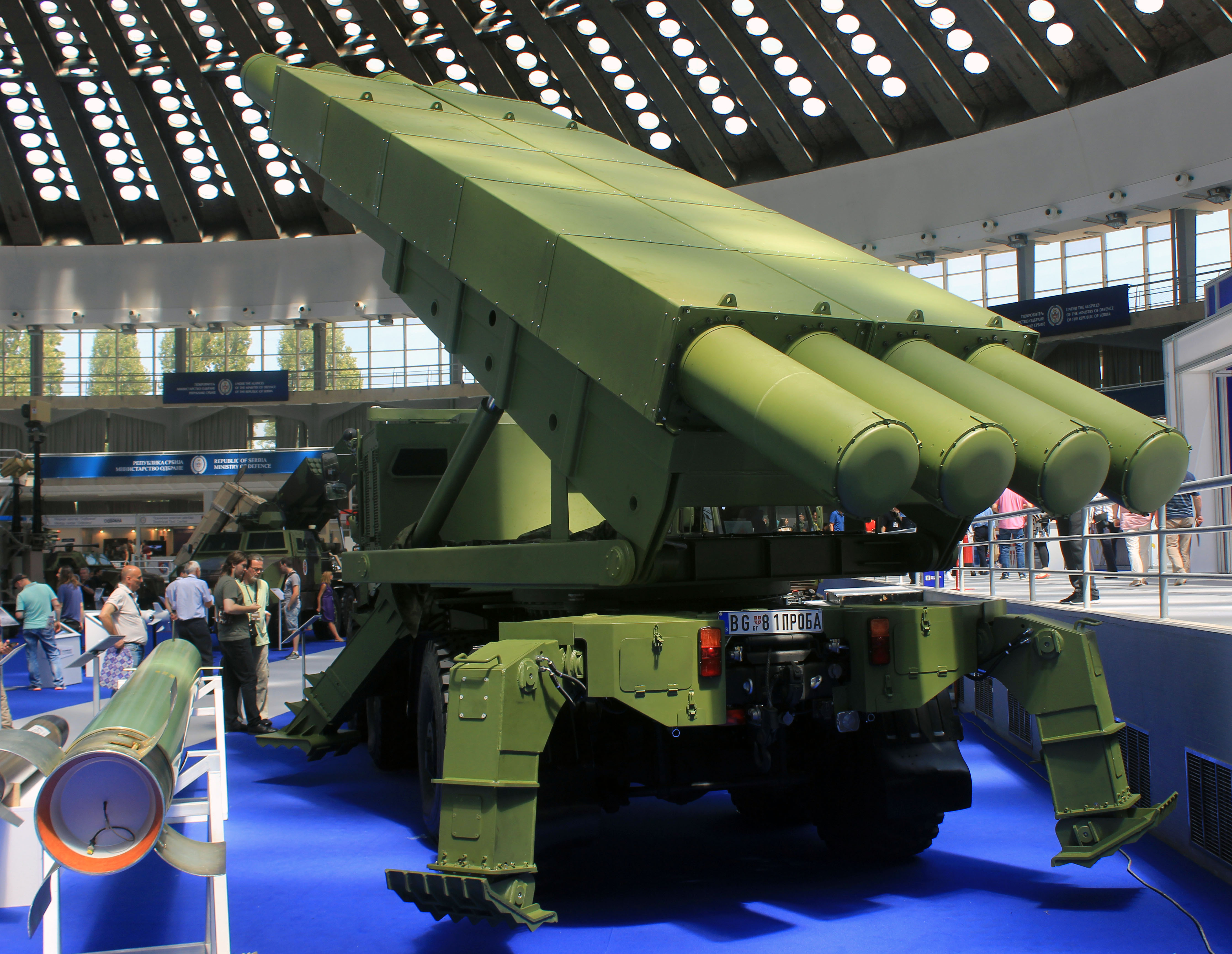 New Serbian modular self-propelled multiple rocket launcher Šumadija developed by Yugoimport SDPR on display at Partner 2017 military fair.